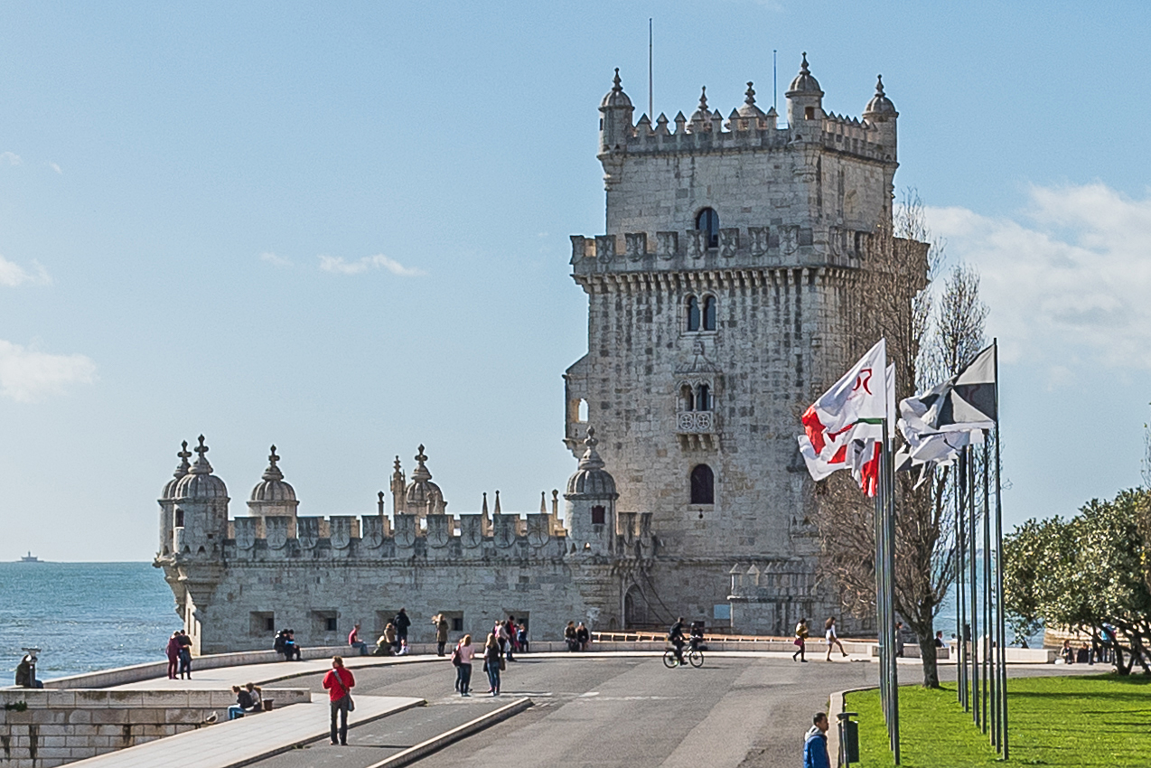 Lisbon Portugal February 2015